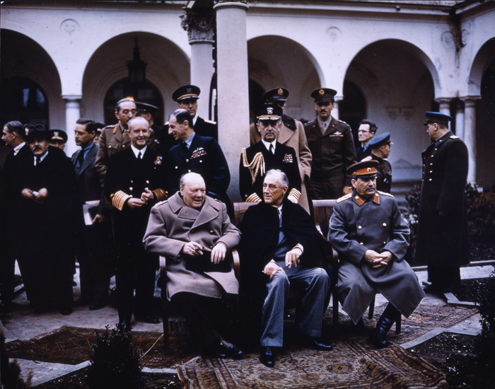 Description: Yalta Conference, Crimea. Churchill, Roosevelt and Stalin. Date: February 1945 Our Catalogue Reference: INF 14/447 This image is from the collections of The National Archives. Feel free to share it within the spirit of the Commons. For high quality reproductions of any item from our collection please contact our image library.